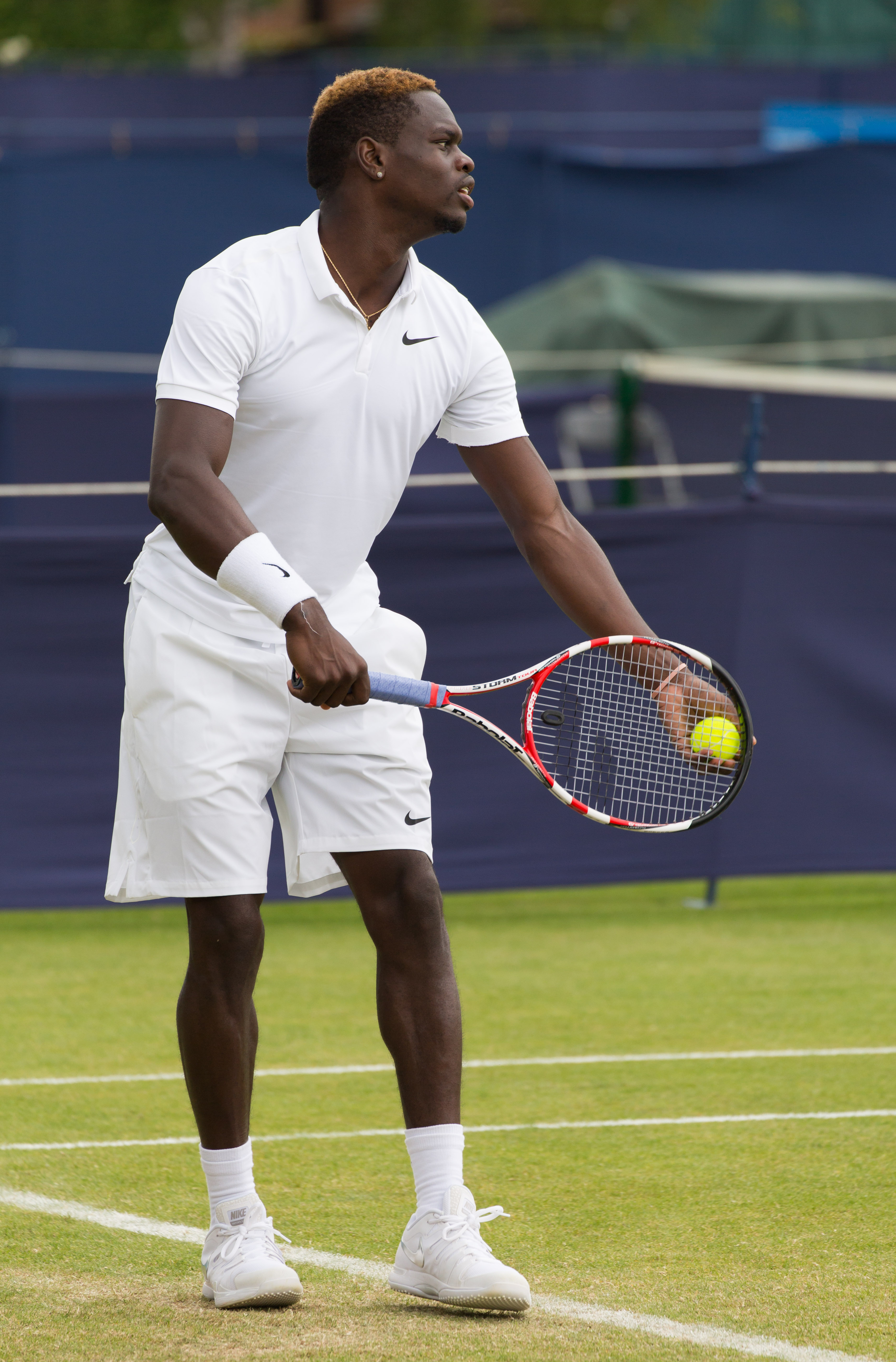 Jarmere Jenkins of the United States at the Aegon Surbiton Trophy in Surbiton, London, during the mens singles match against Frederik Nielsen of Denmark.